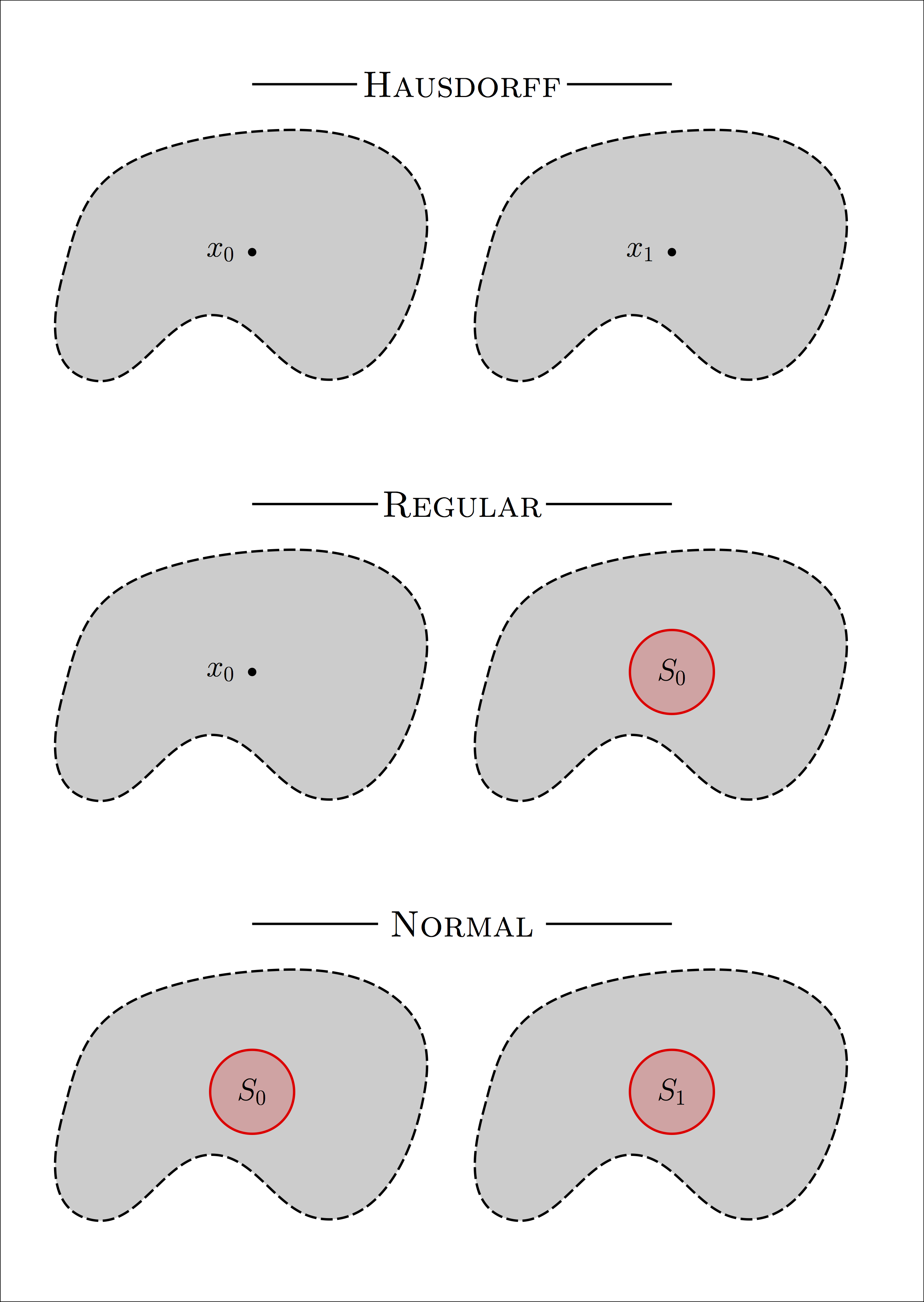 Simple illustration of Hausdorff, Regular, and Normal spaces for use as visual aid to the accompanying article on the separation axioms.